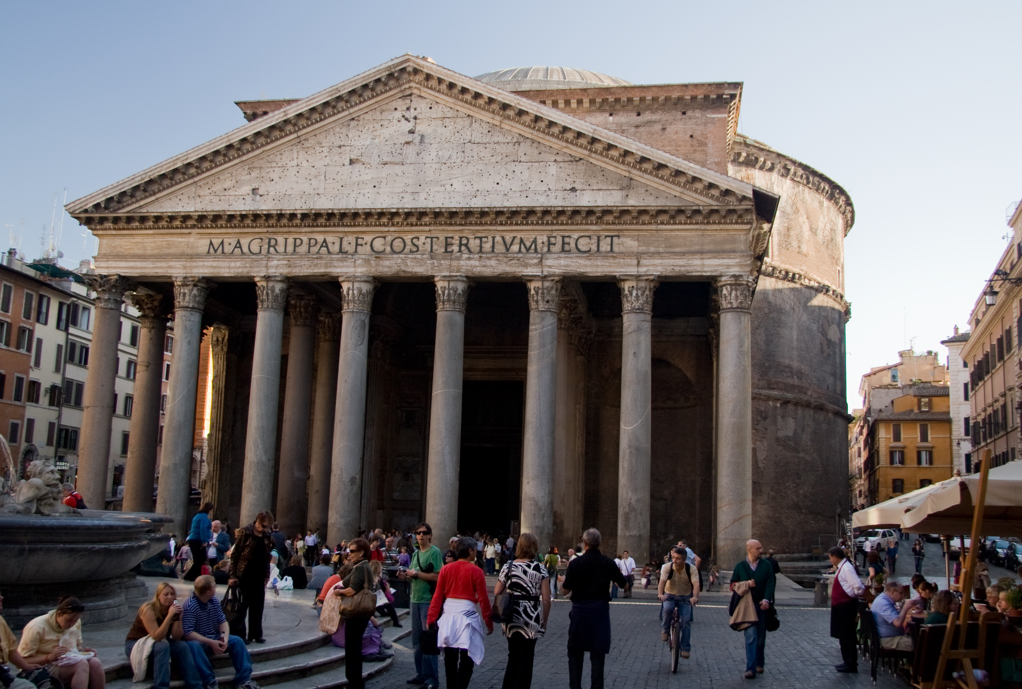 The Pantheon in Roma. - OpenStreetMap (Info) Outside